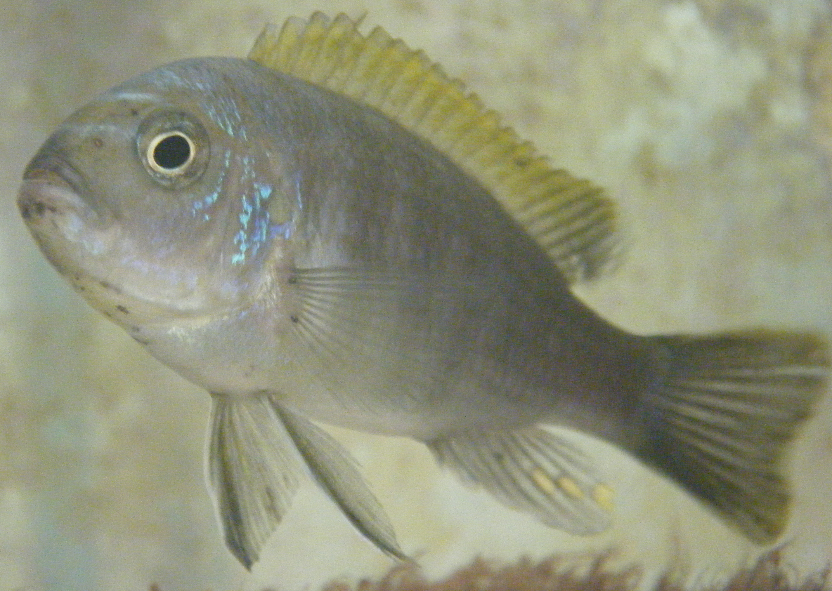 Cynotilapia mbamba, wild caught female from Likoma Island